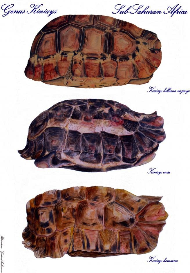 Three different species of Kinixys. Original